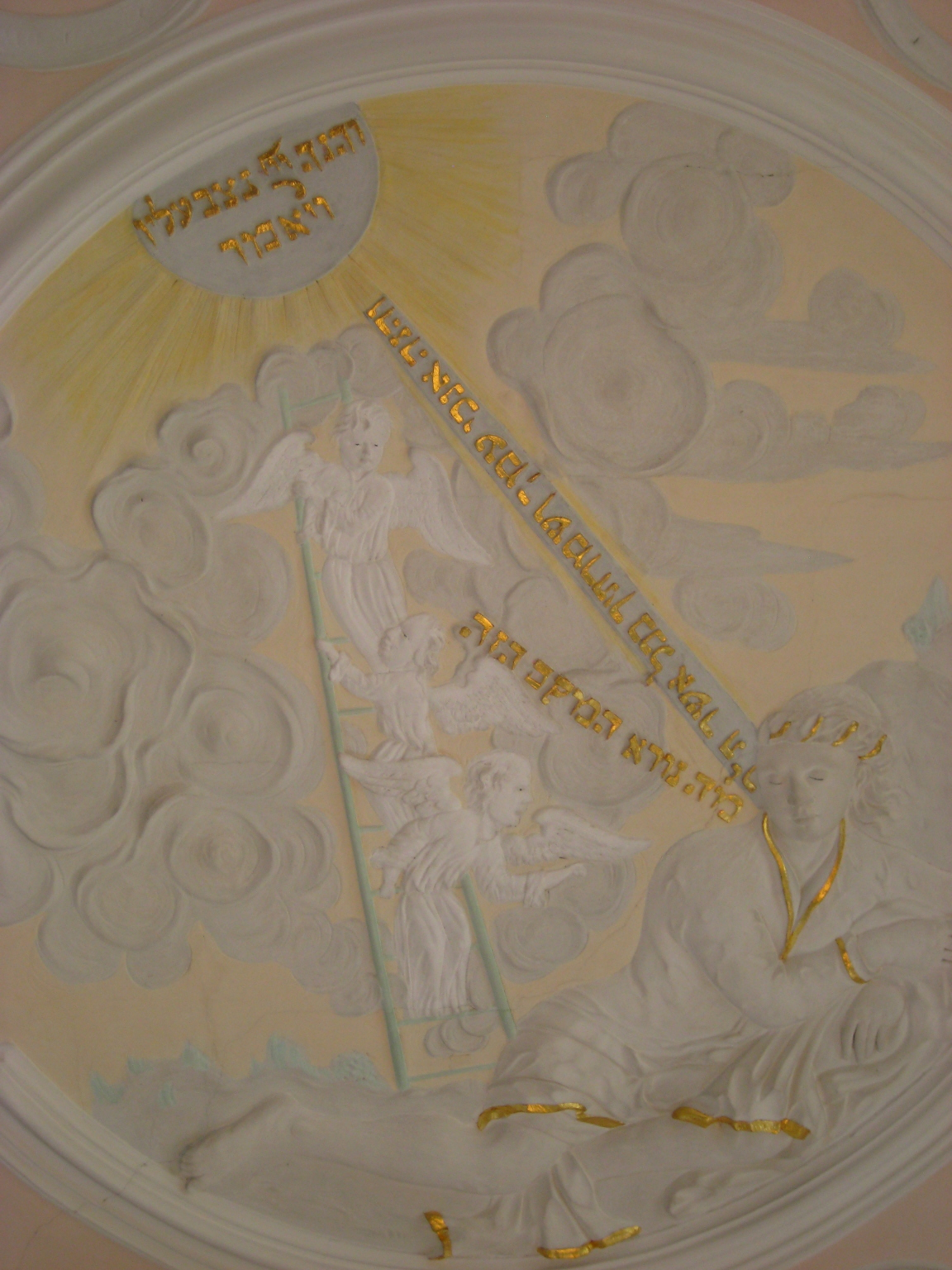 Ceiling in Monheim Town Hall: Jacob dreaming of the ladder to heaven. The sun contains the words וְהִנֵּה יְהוָה נִצָּב עָלָיו וַיֹּאמַר (And, behold, the LORD stood beside him, and said) The ray coming from heaven reads וְהִנֵּה אָנֹכִי עִמָּךְ וּשְׁמַרְתִּיךָ בְּכֹל אֲשֶׁר-תֵּלֵךְ (And, behold, I am with thee, and will keep thee whithersoever thou goest) Jacob exclaims מַה-נּוֹרָא הַמָּקוֹם הַזֶּה (How full of awe is this place!) All taken from Genesis 28:13-17